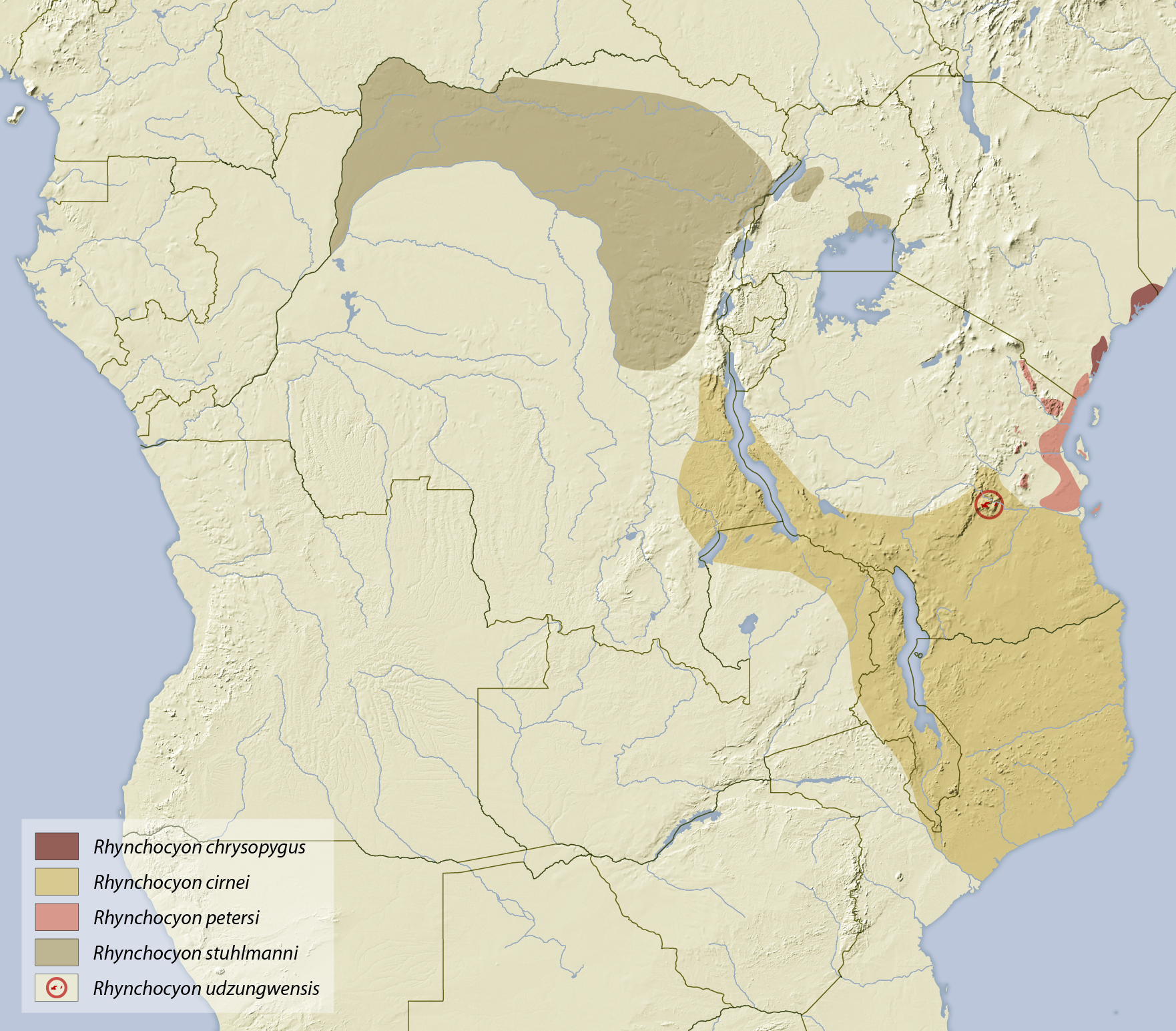 Distribution map of the genus Rhynchocyon